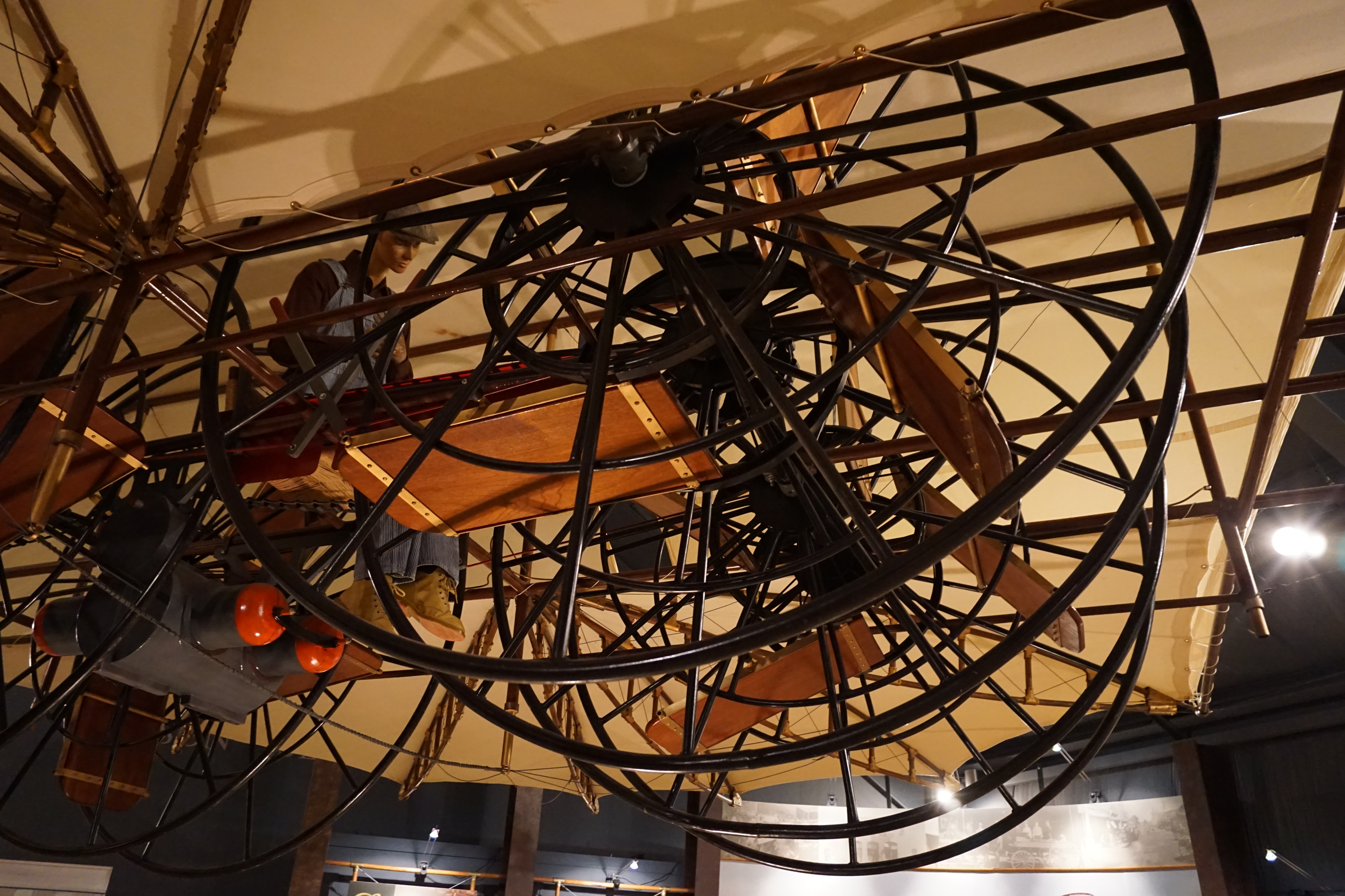 The Ezekiel Airship replica on display at the Northeast Texas Rural Heritage Center and Museum in Pittsburg, Texas (United States).